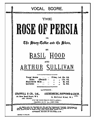 Cover of the musical score to The Rose of Persia